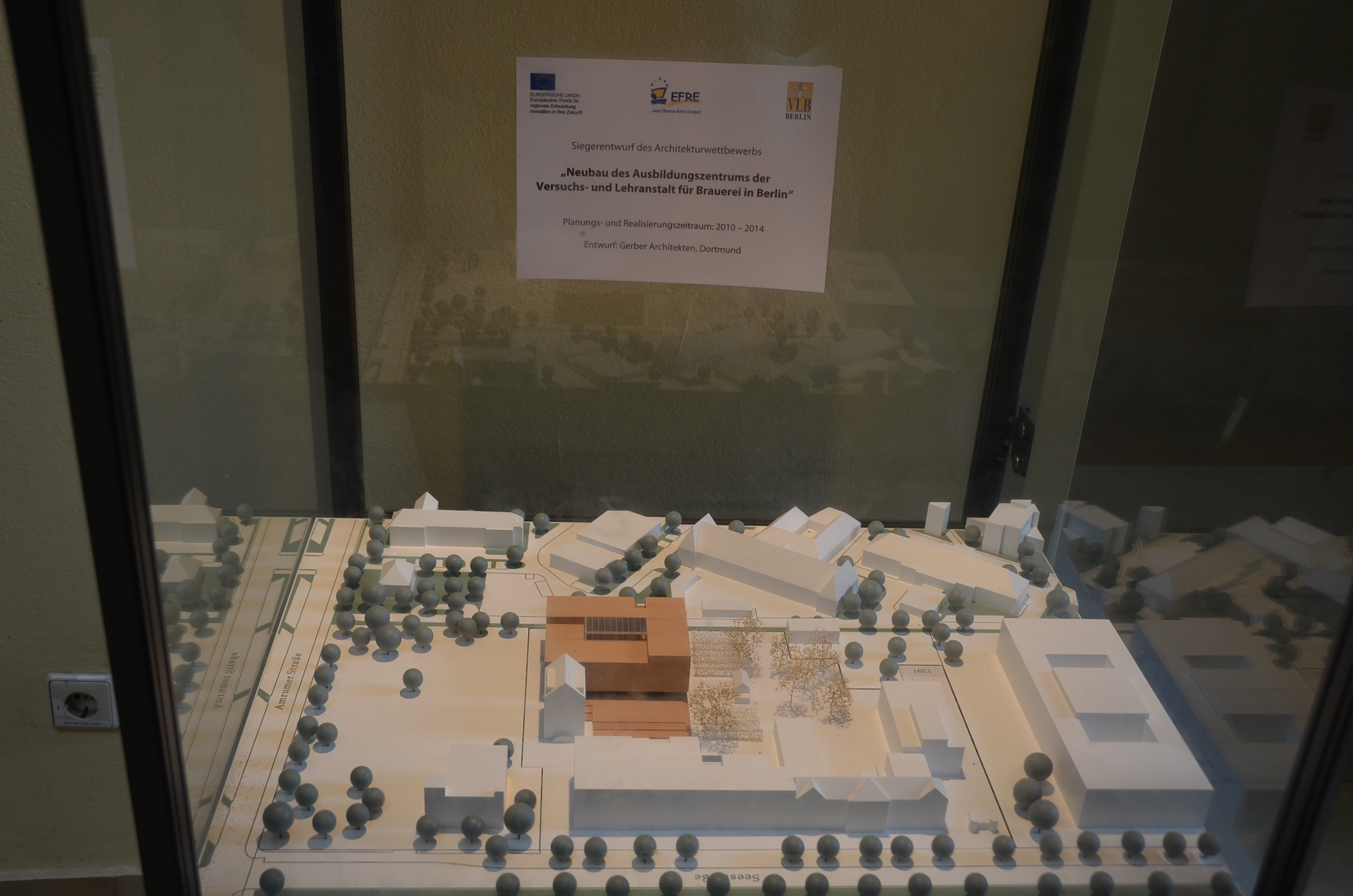 Versuchs- und Lehranstalt für Brauerei